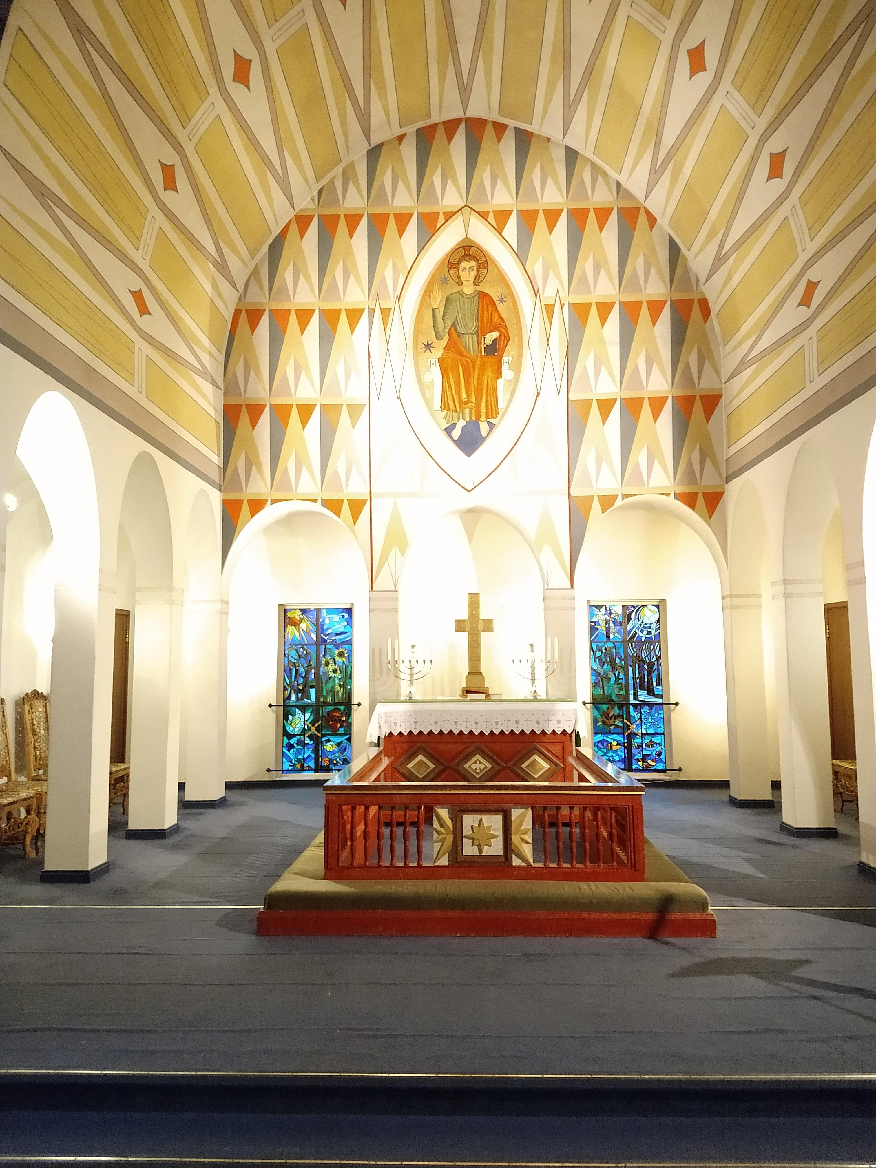 Altar area Vadsø church